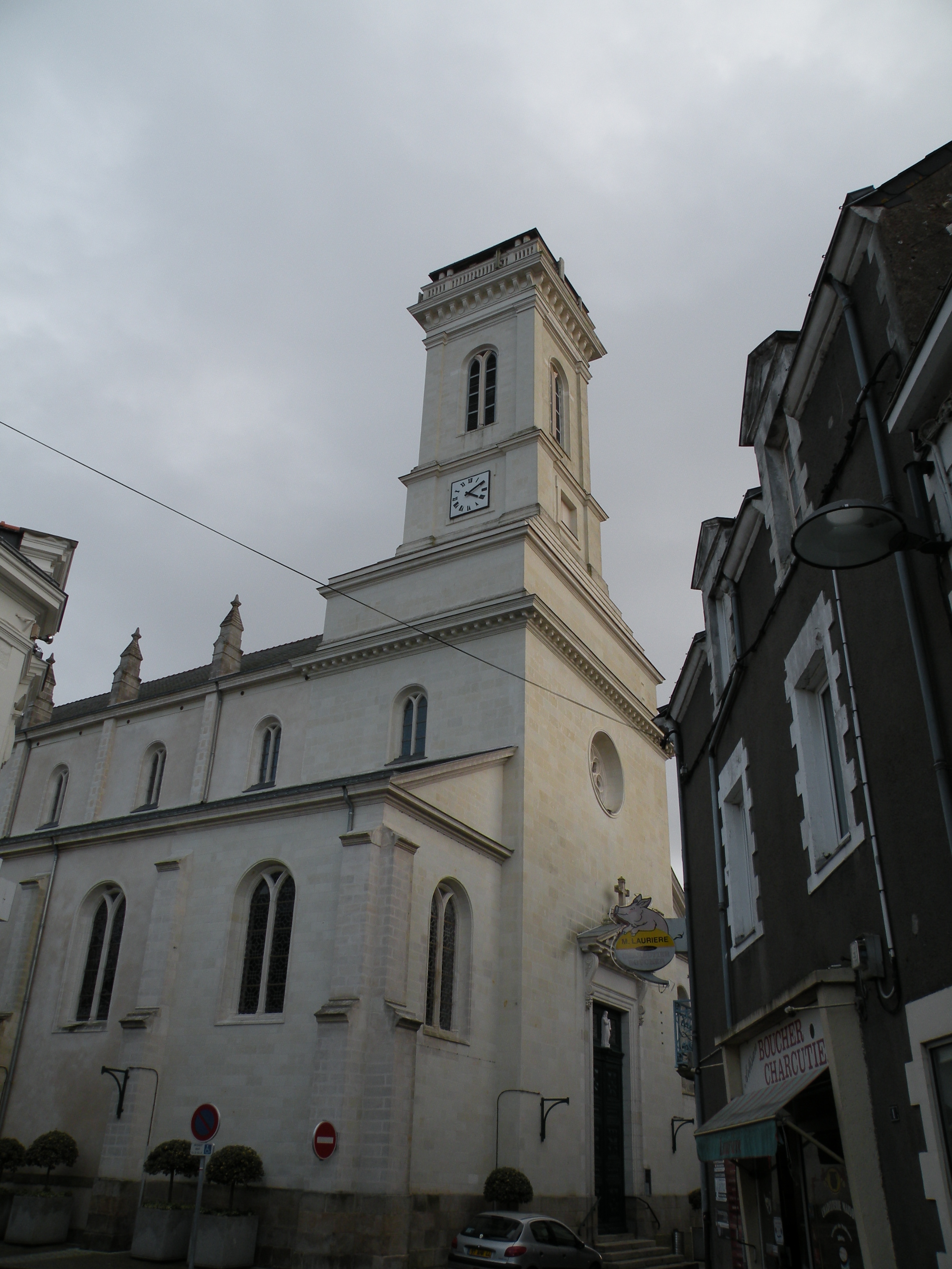 Church of Saint-Étienne-de-Montluc